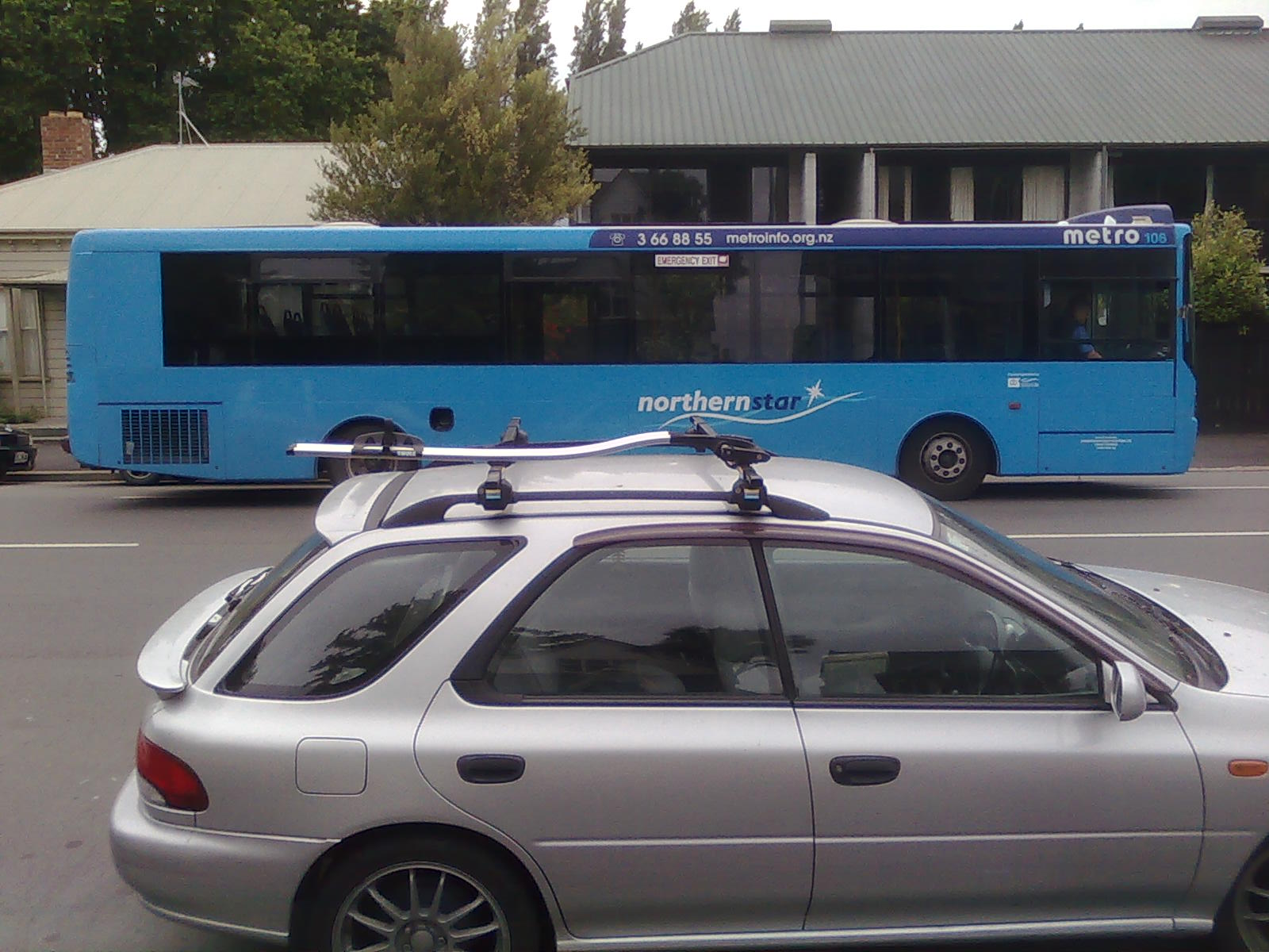 CBS #106 in Northern Star Livery parked up on Kilmore Street